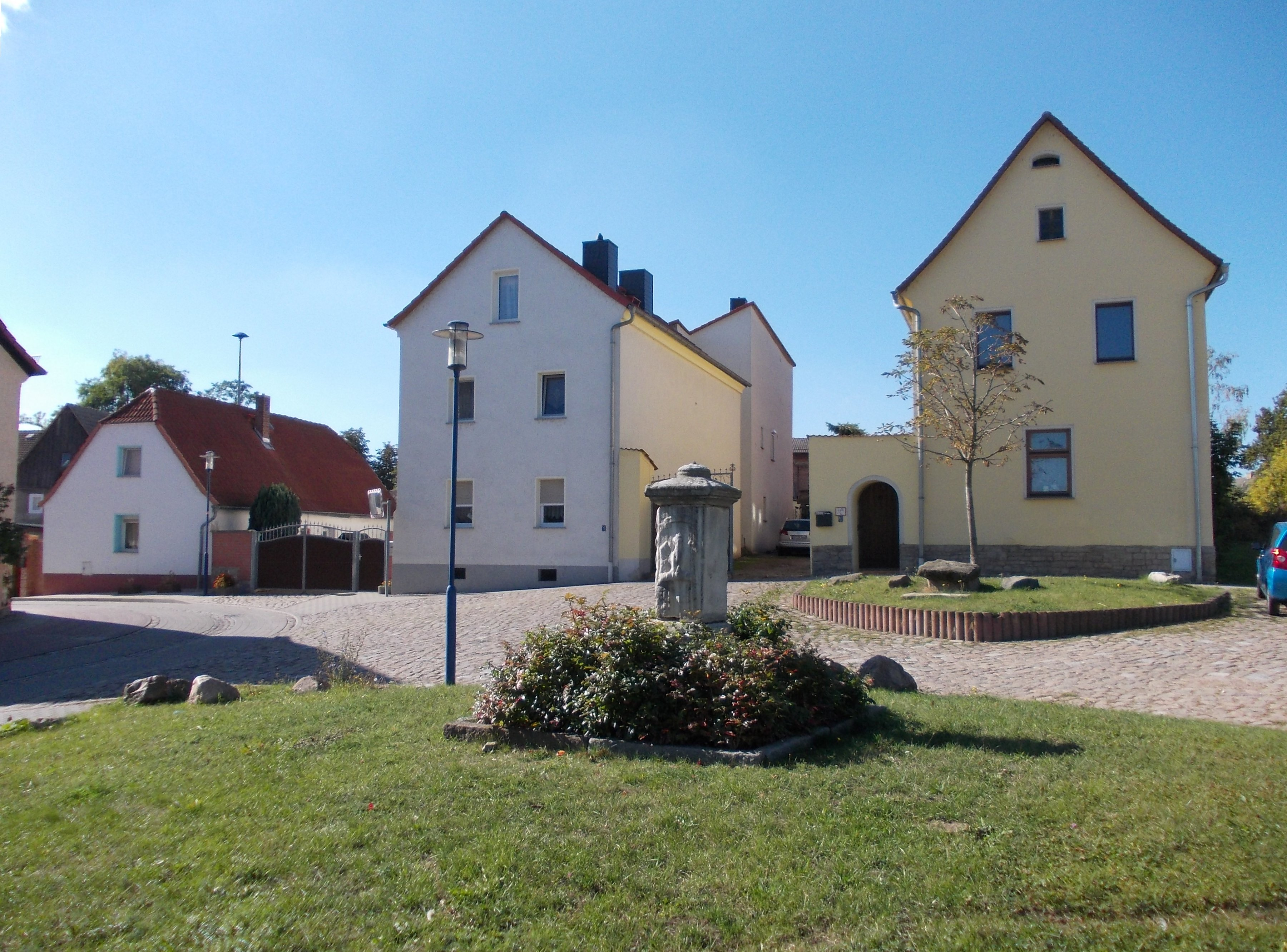 In the village of Göhlitzsch (Leuna, district of Saalekreis, Saxony-Anhalt), with peasants' stone in the background